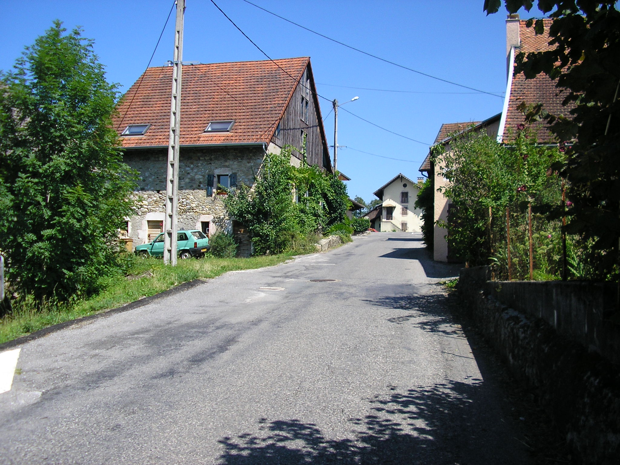 Route d'Arpigny in Marcellaz.